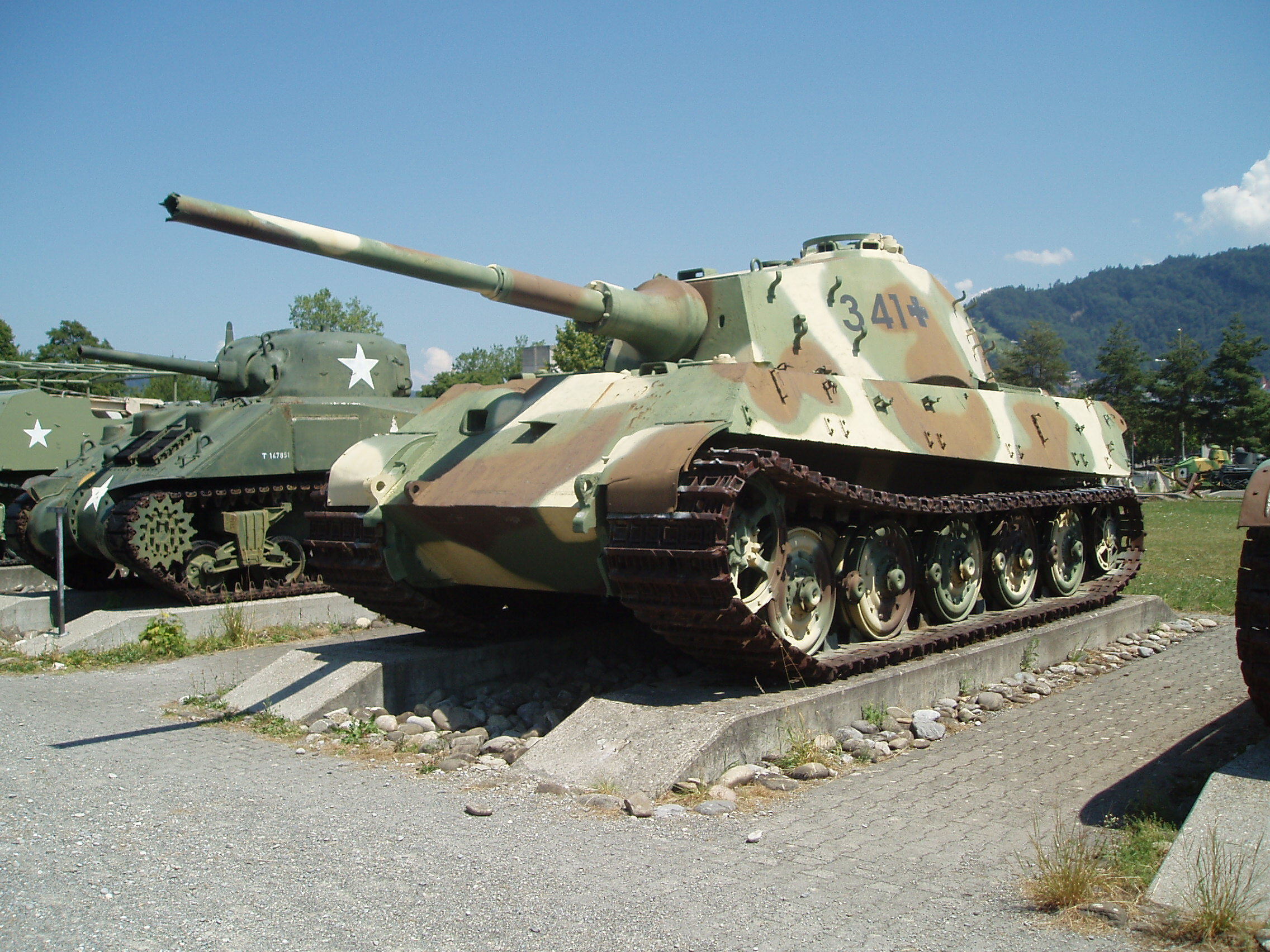 A Königstiger at the Panzermuseum Thun, Switzerland. The muzzle brake is missing and the gun barrel seems to be slightly damaged.